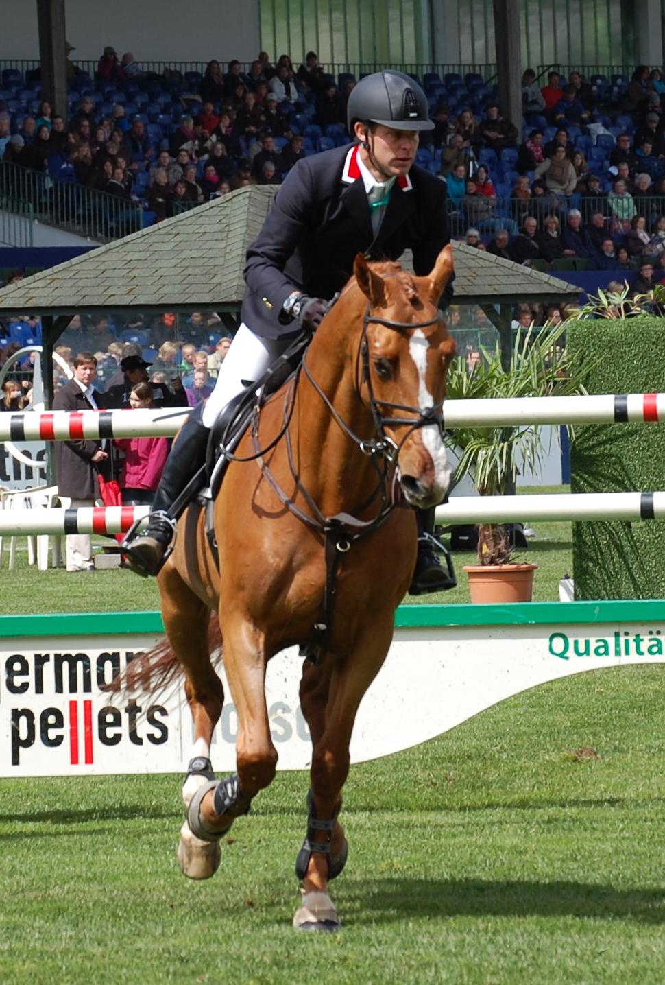 German rider Johannes Ehning with Salvador V, "Championat von Hamburg", CSI 5* Hamburg 2012